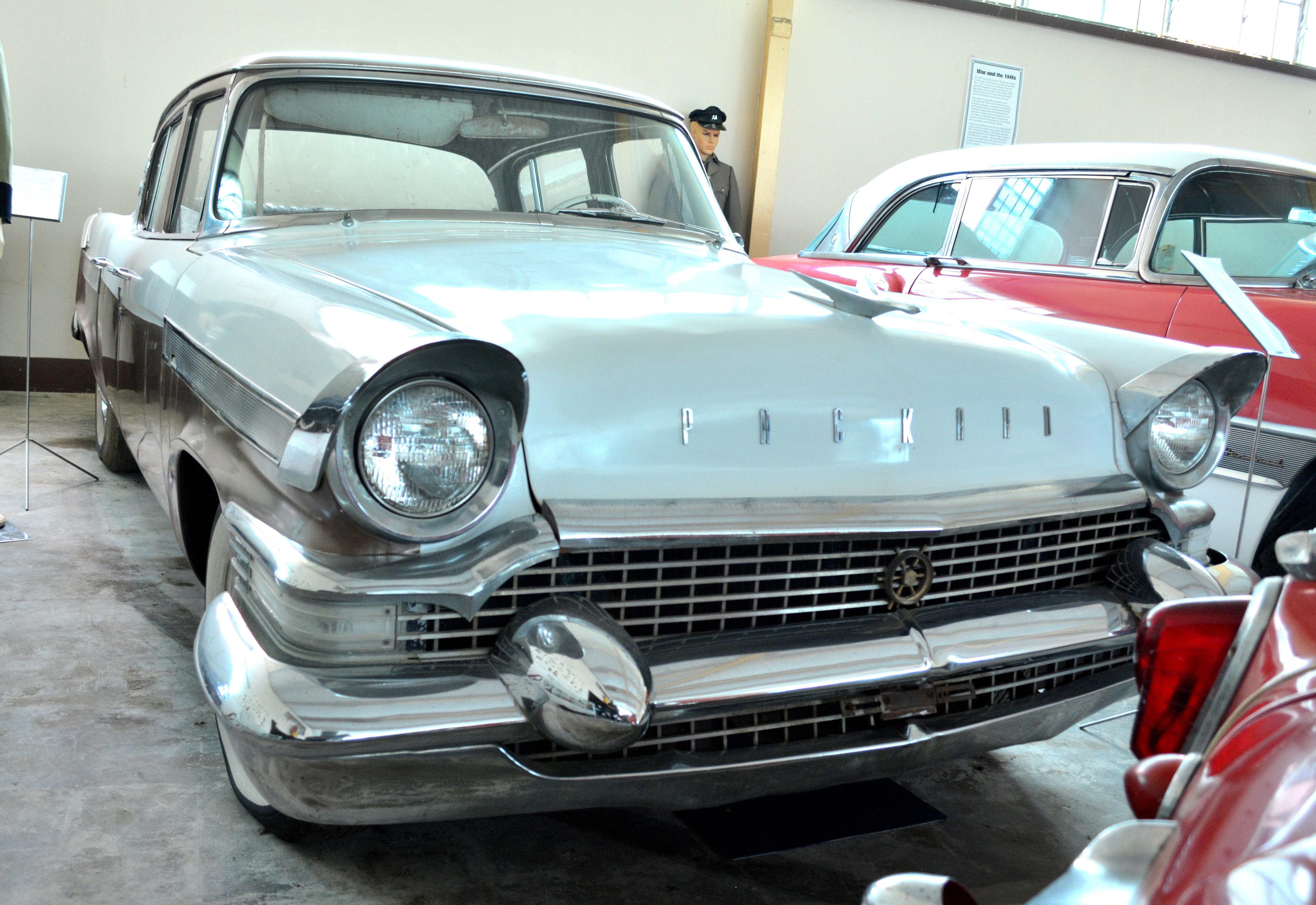 Packard Pioneer Museum,Northland New Zealand